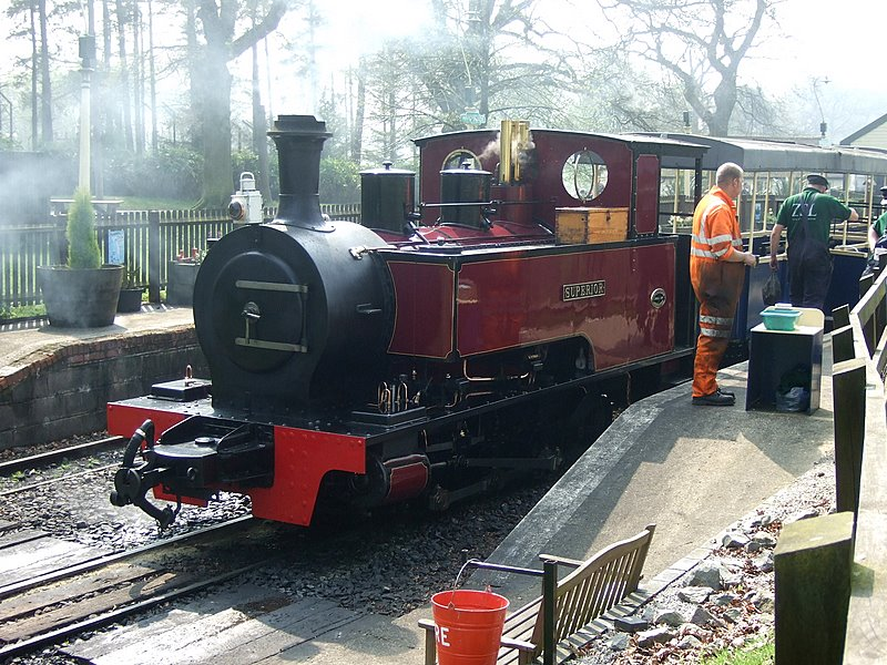 The train inside the grounds of Whipsnade Zoo, Bedfordshire, England.